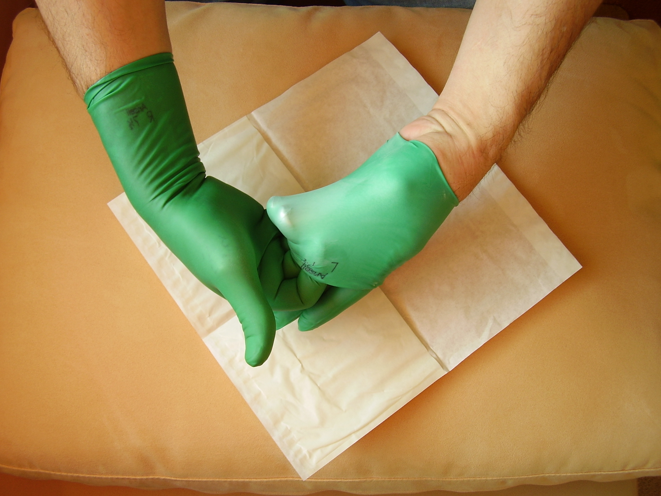 Disposable gloves; surgical gloves; chirurgische Handschuhe; steril; Latexhandschuhe